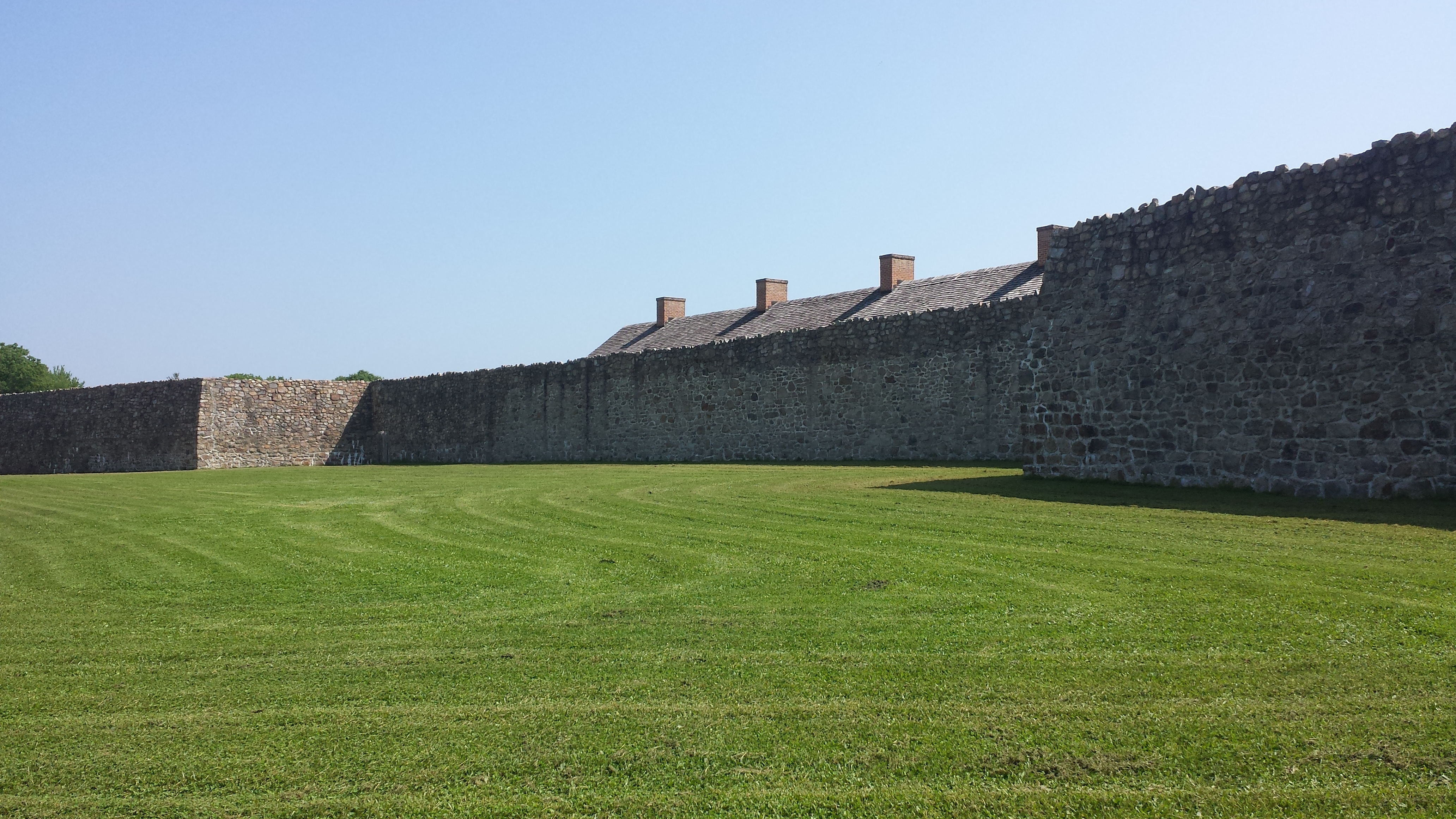 An image of the restored walls surrounding Fort Frederick. The star fort was originally built between 1756 and 1757 and was used during the French and Indian War and the Civil War.